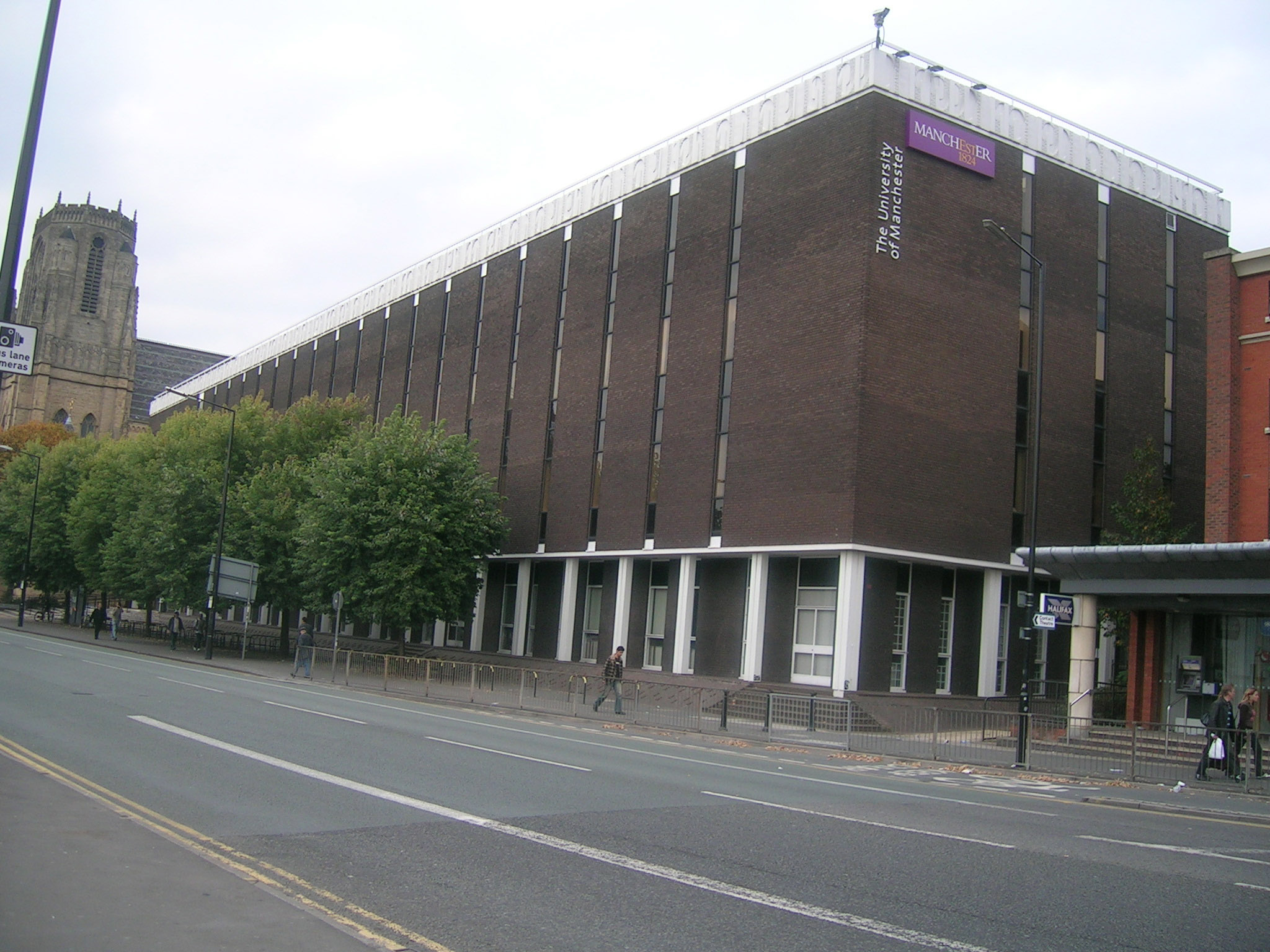 Stopford Building, University